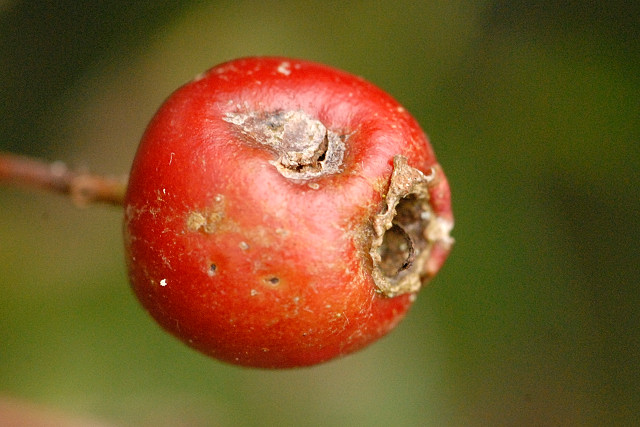 Venturia inaequalis from Commanster, Belgium. The determination of the species shown in this picture has been verified.